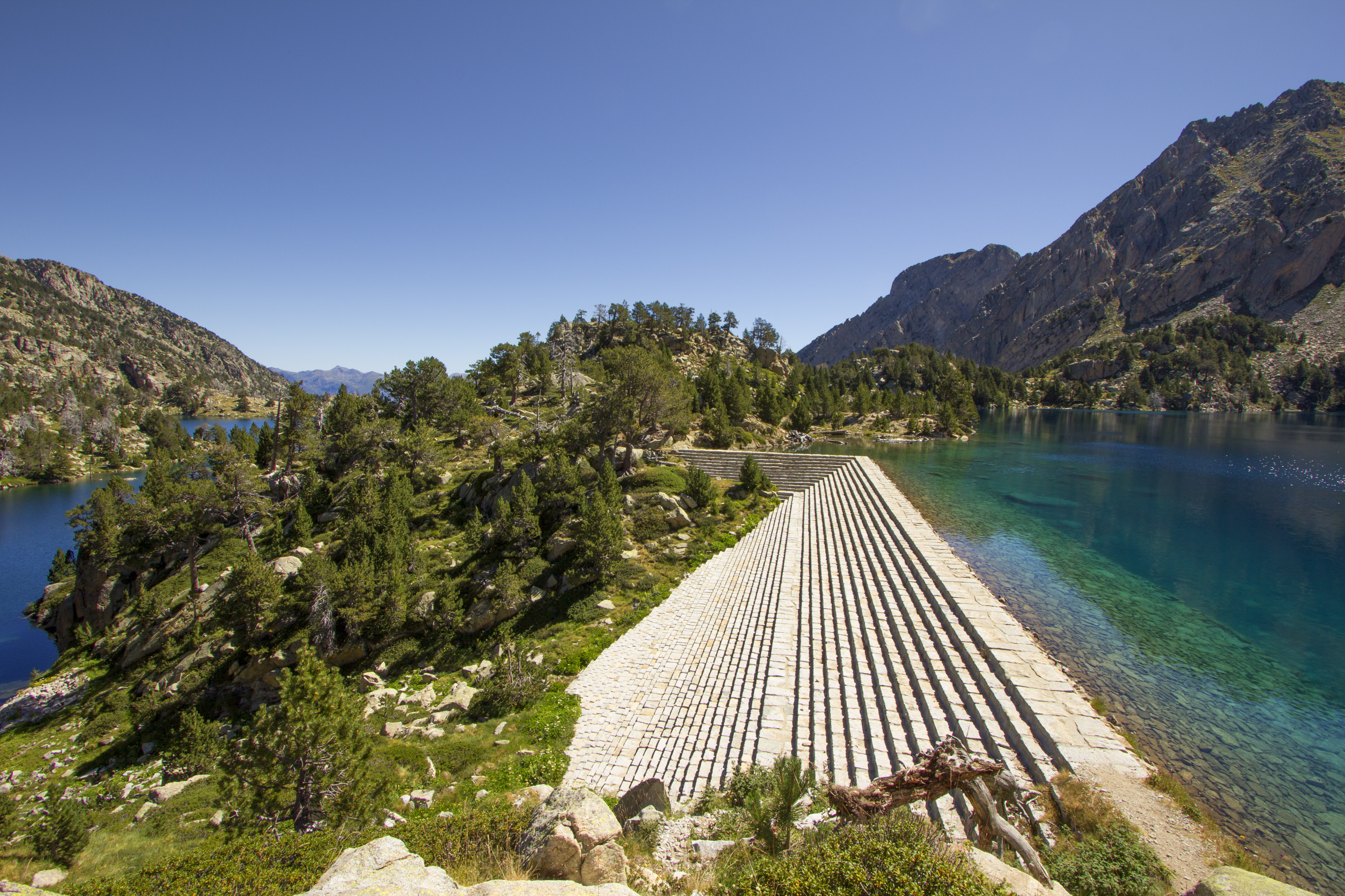 Dam of Negre de Peguera lake, Espot (Catalan Pyrenees)